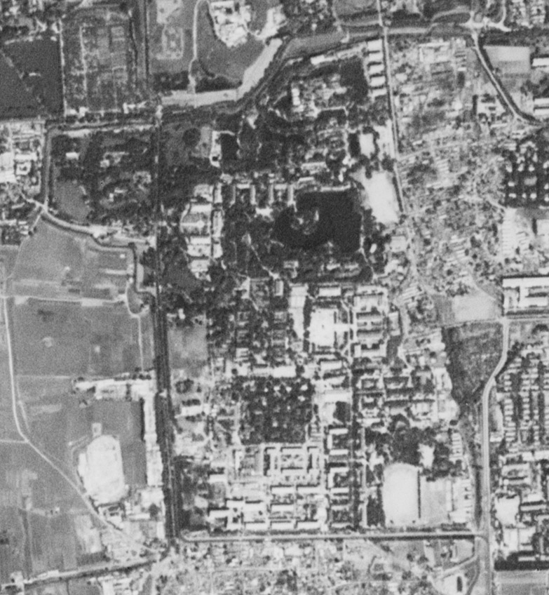 Peking University. Spatial tentatively corrected. 中文（中国大陆）: 北京大学。空间上尝试性矫正过。